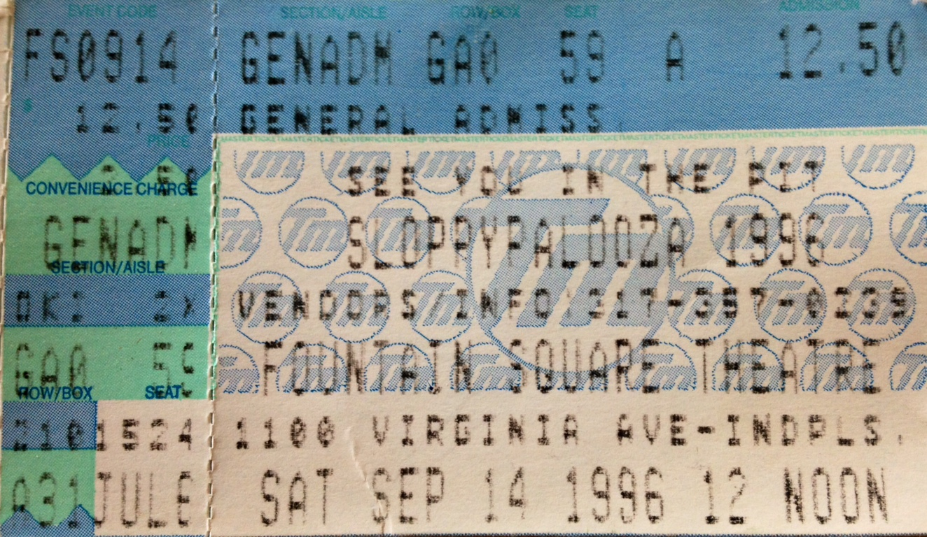 Sloppypalooza concert ticket September 14, 1996, Indianapolis, Indiana Fountain Square Theatre